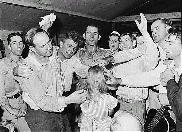 From NARA, ARC Identifier: 541337 NARA's caption: Healing "laying on of hands" ceremony in the Pentecostal Church of God. Lejunior, Harlan County, Kentucky. , 09/15/1946 Item from Record Group 245: Records of the Solid Fuels Administration for War, 1937 - 1948 Photographer: Russell Lee